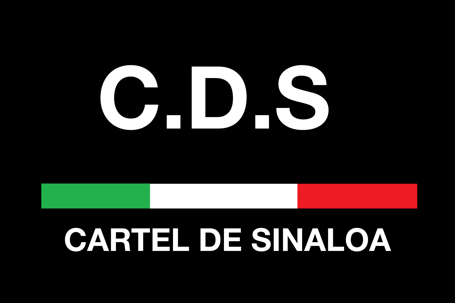 This is the logo of the Mexican criminal organization known as the Sinaloa Cartel